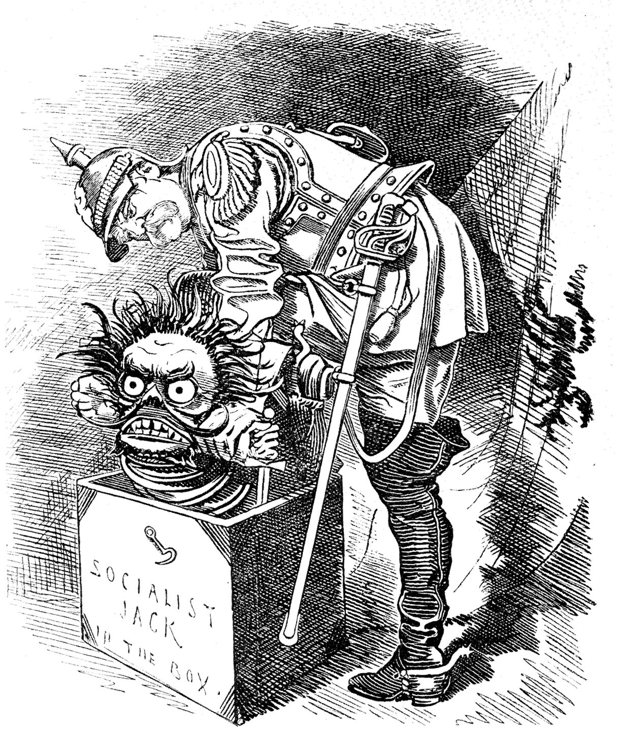 „Socialist jack in the box“